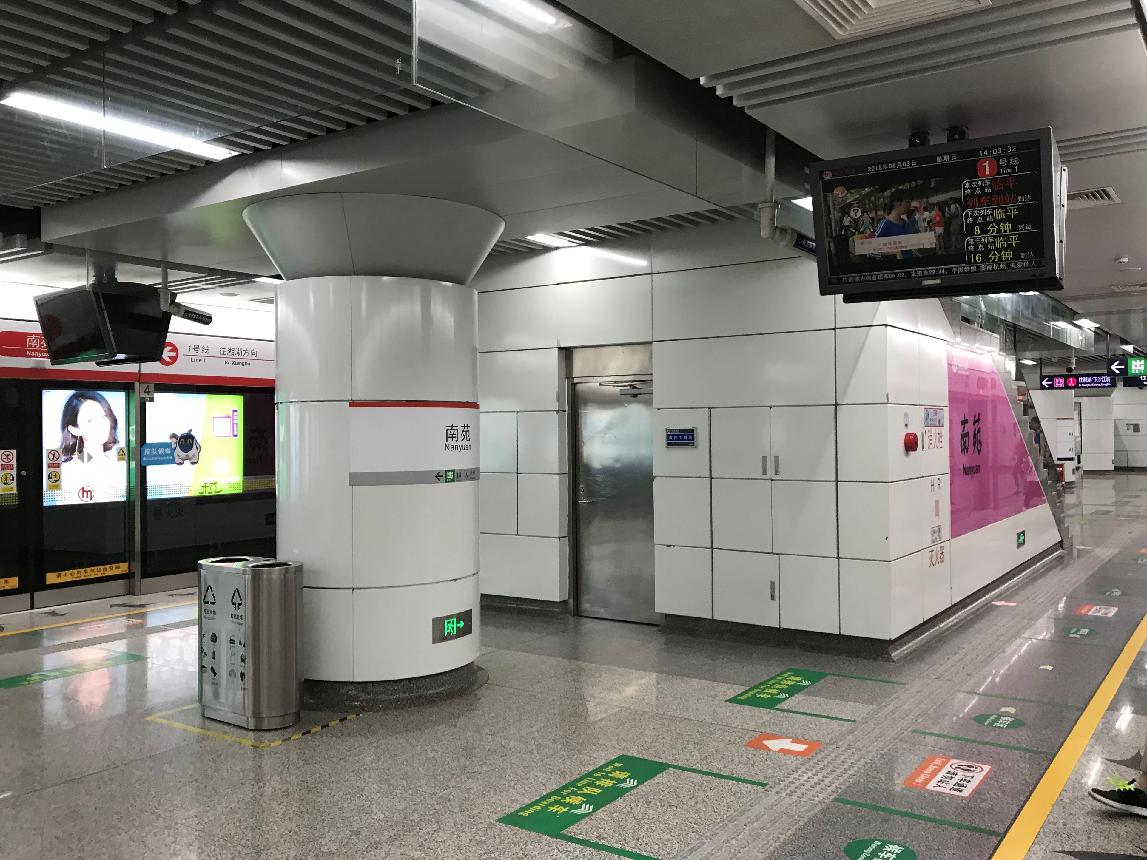 201806 Nanyuan Station